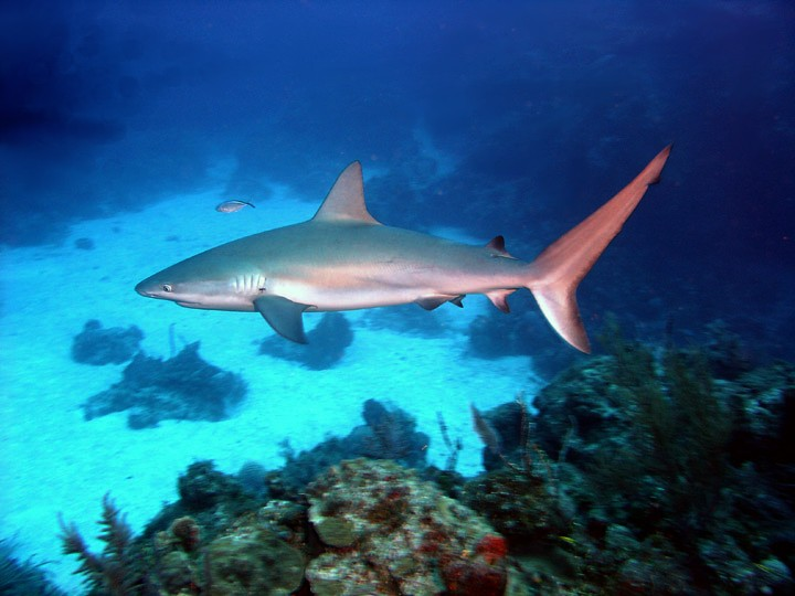 Caribbean reef shark (Carcharhinus perezi) in the Bahamas.